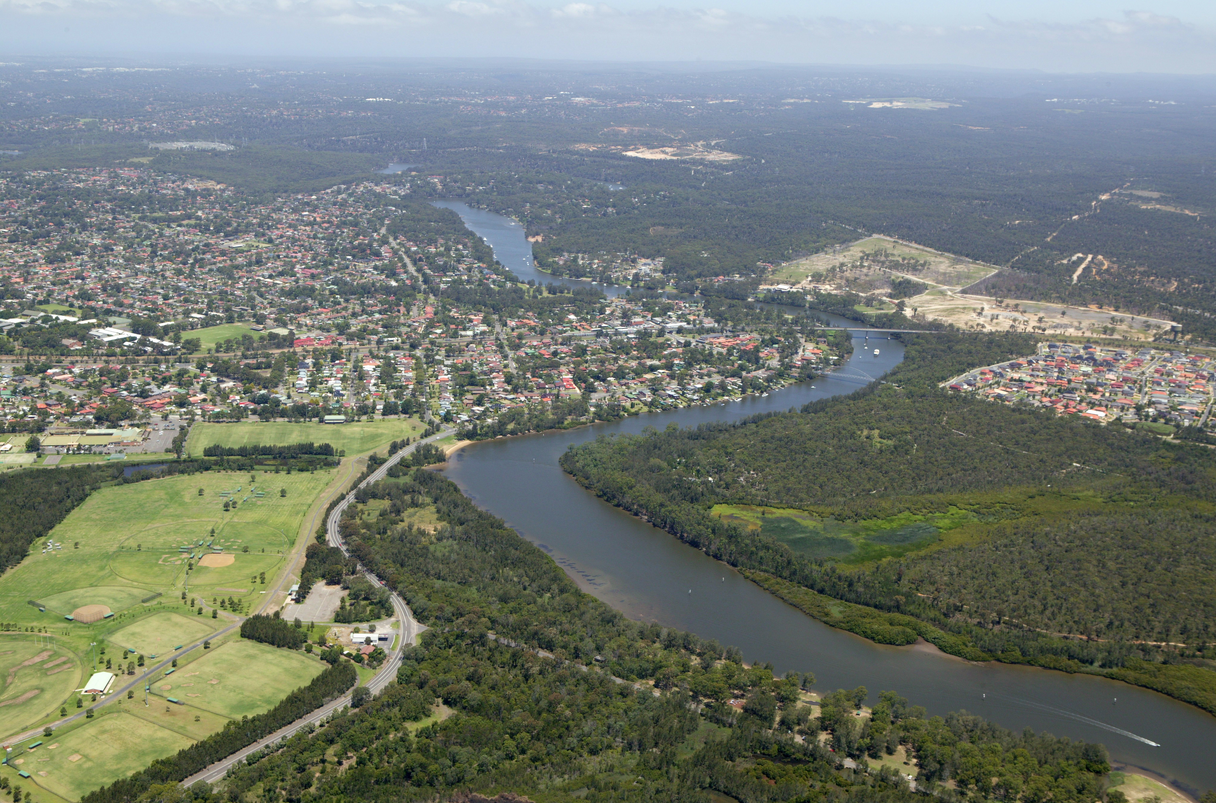 An aerial photograph of East Hills and Milperra showing the railway bridge crossing Georges River and Kelso Park. The baseball complex is shown on the left of the picture. The photograph was taken in December of 2004. [Bankstown City Library photography collection] To access the Bankstown City Library Collection click here: .au/Libero/bankstown/toolbar/lib...